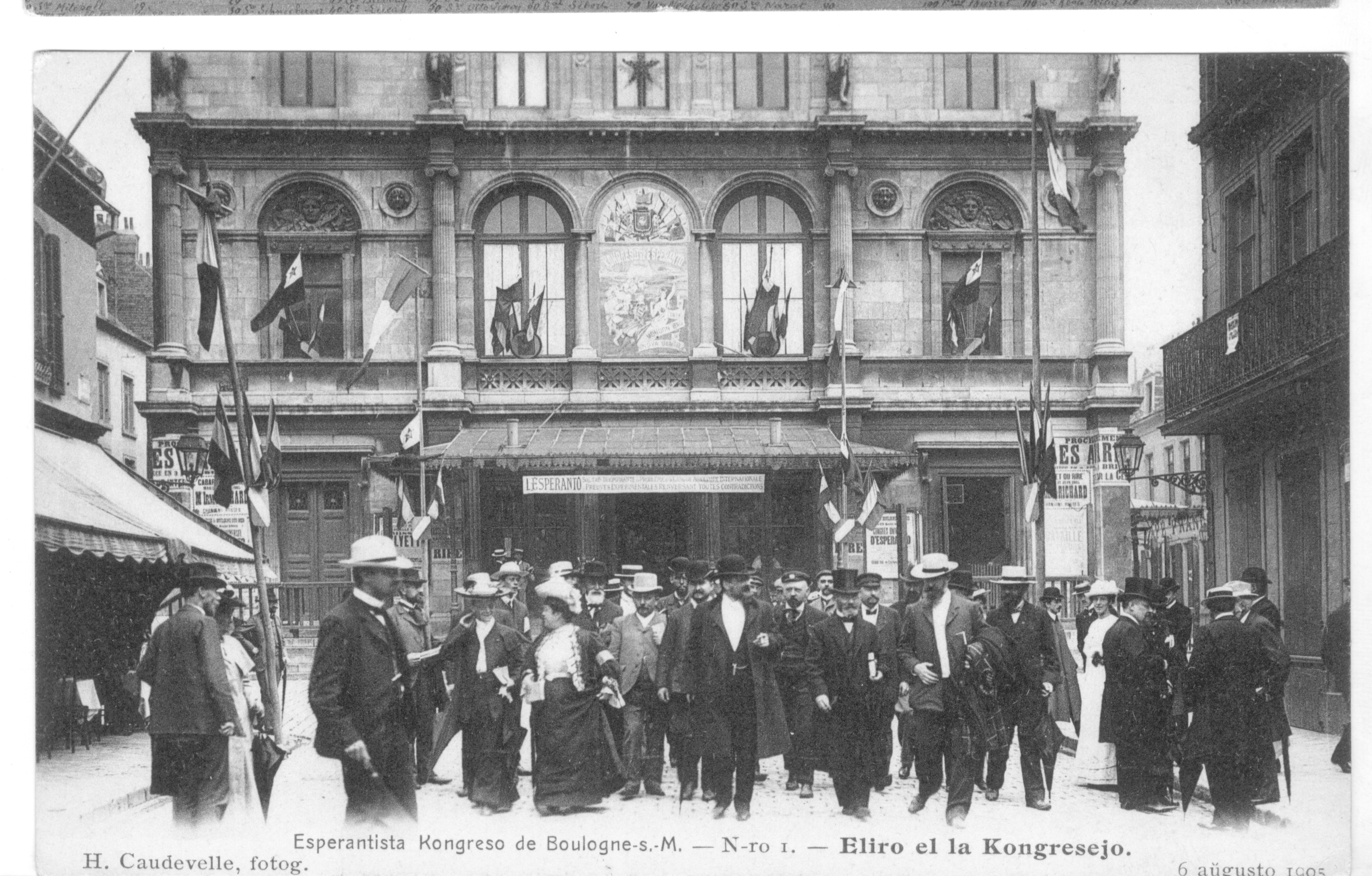 The first World Esperanto Congress in Boulogne-sur-Mer—the exit of the convention hall.